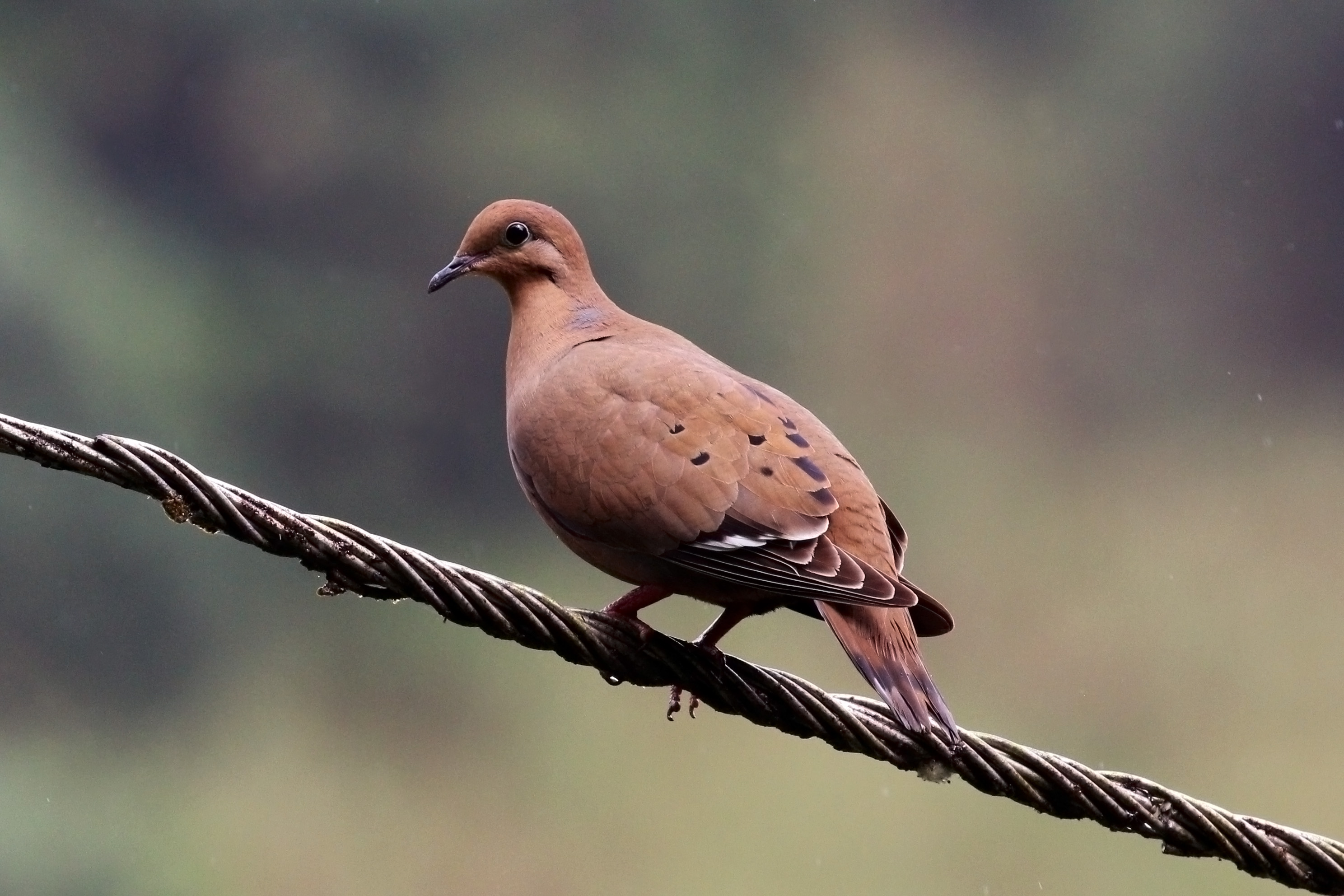 Zenaida dove (Zenaida aurita) male, Jamaica